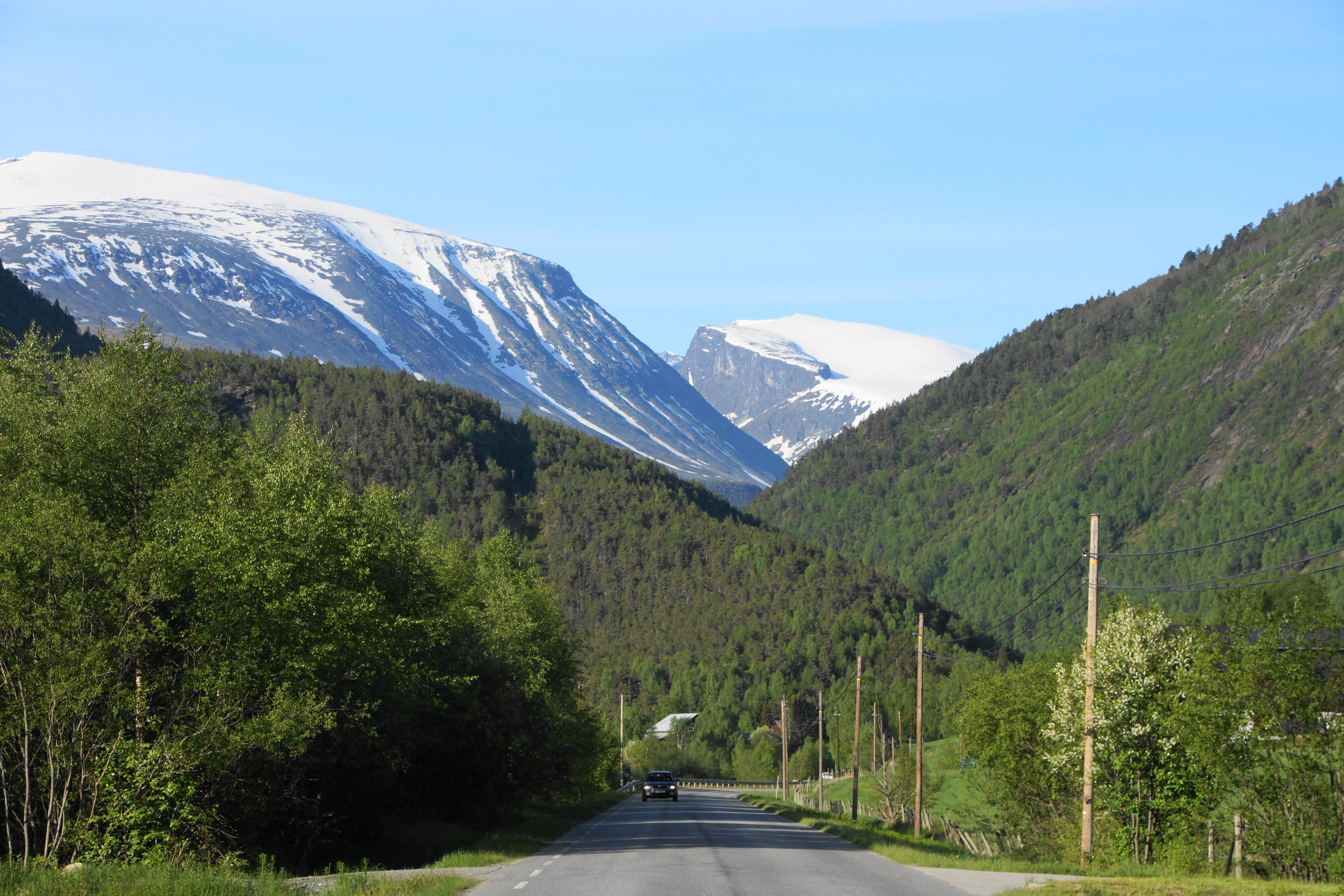 Norwegian County Road 55 at Bøverdalen. Bøverdalen is a valley in Lom municipality, named after the river Bøvra.